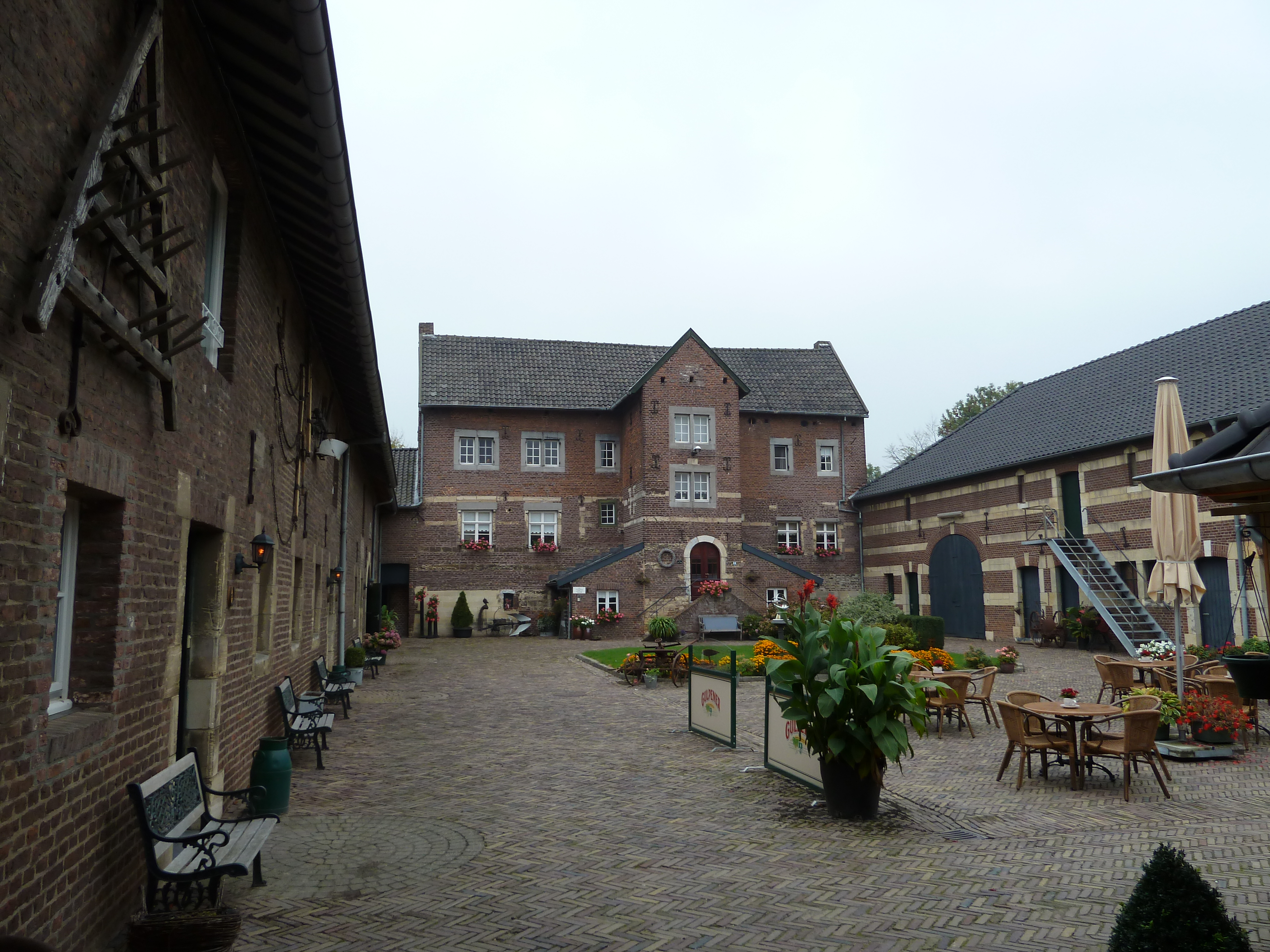 De Puthof, Reijmerstokkerdorpsstraat 130, Reijmerstok, Limburg, the Netherlands